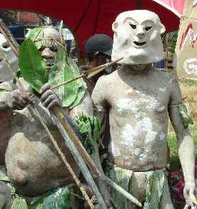 Asaro Mudmen from Papua New Guinea.